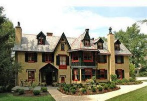 Inglewood Cottage, located in the Chestnut Hill neighborhood of Philadelphia, Pennsylvania.